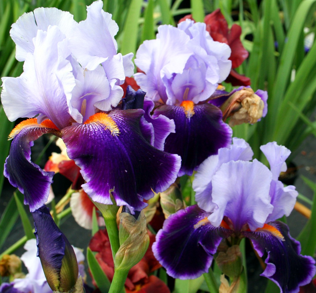 Purple Iris Flower